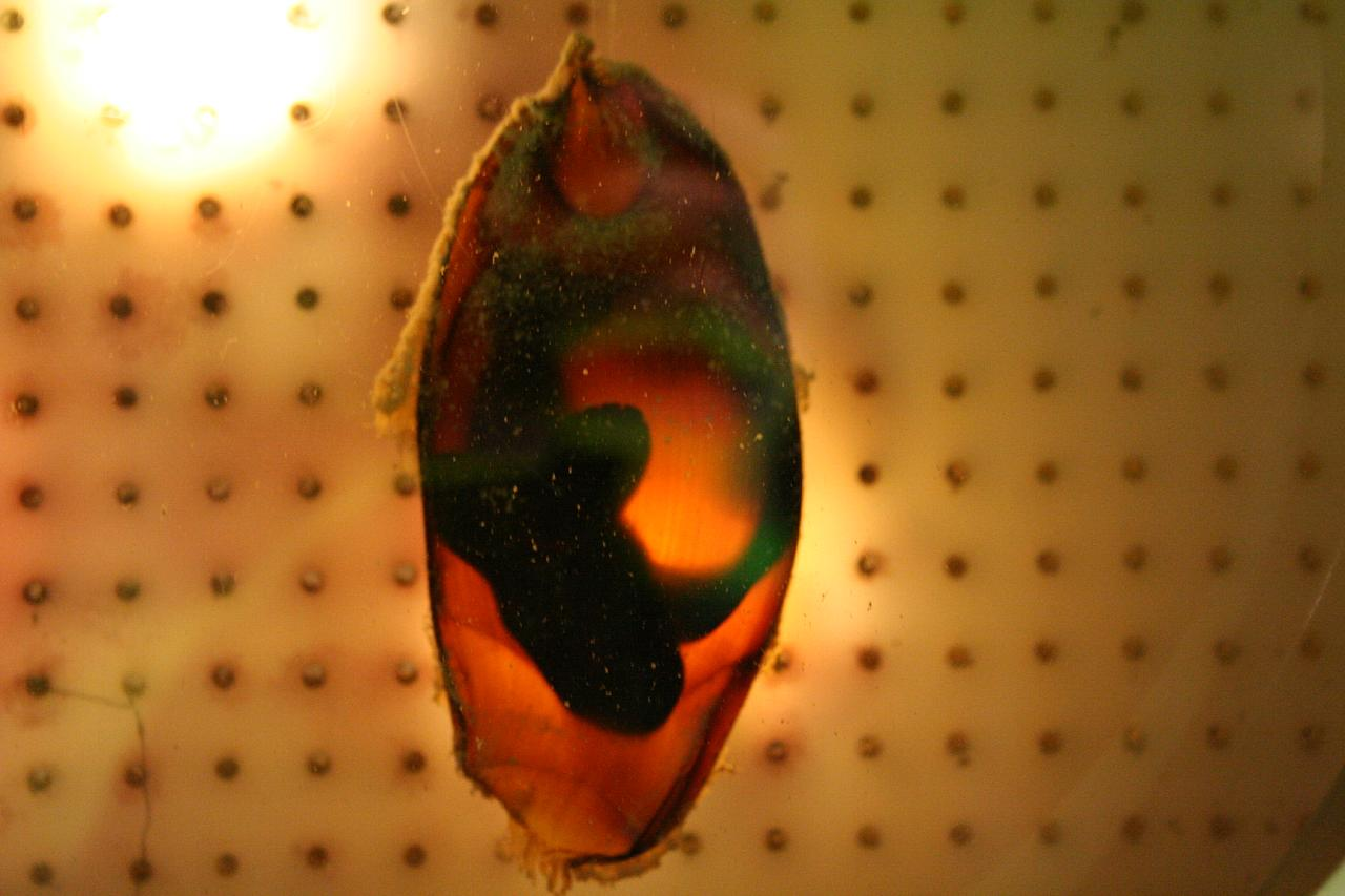 Egg case of a white-spotted bamboo shark (Chiloscyllium plagiosum) at the Shedd Aquarium